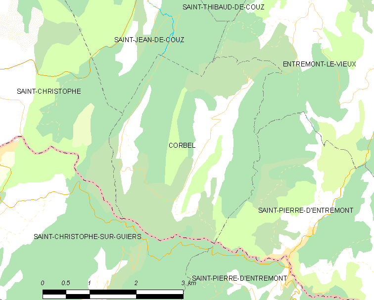 Map of French municipality